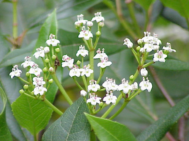 Species: Viburnum globosum Family: Adoxaceae (formerly in Caprifoliaceae) Image No. 2